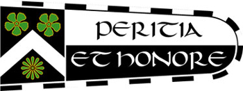 A digital version of a McGeachie Pennon as granted by The Court of the Lord Lyon. The Blazon is Argent and Sable with the Arms in the hoist and the motto in two lines counterchanged